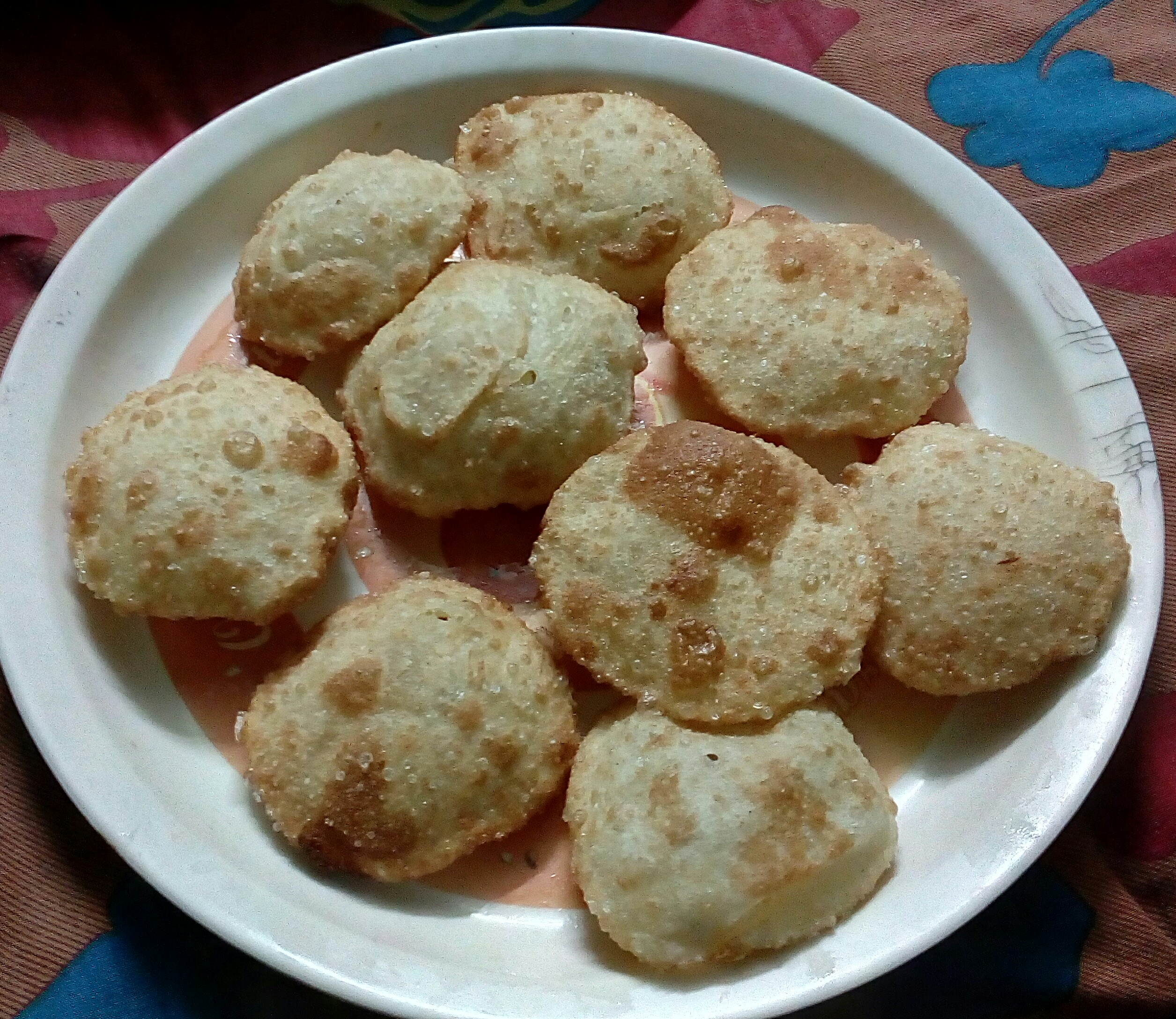 Puri, Bangladeshi snacks made by flour, oil.